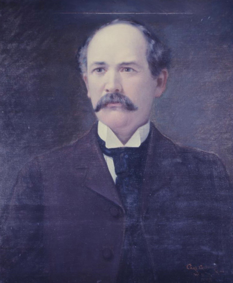 Former Governor of Mississipi